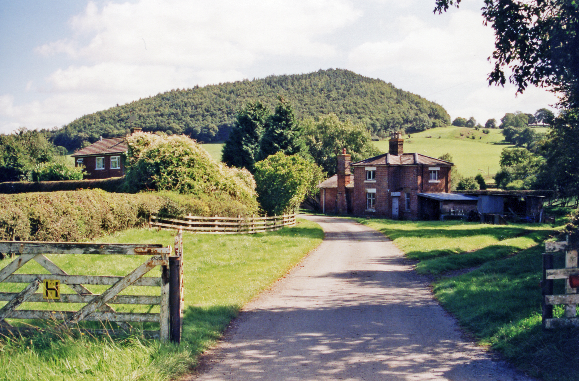 Llanfechain: former station, 1999. View SE to the former station, now a private house, on the ex-Cambrian Railways Llanymynech (to left) - (to right) Llanfyllin branch, closed 18/1/65. The hill ahead is Long Hill (286 ft.).